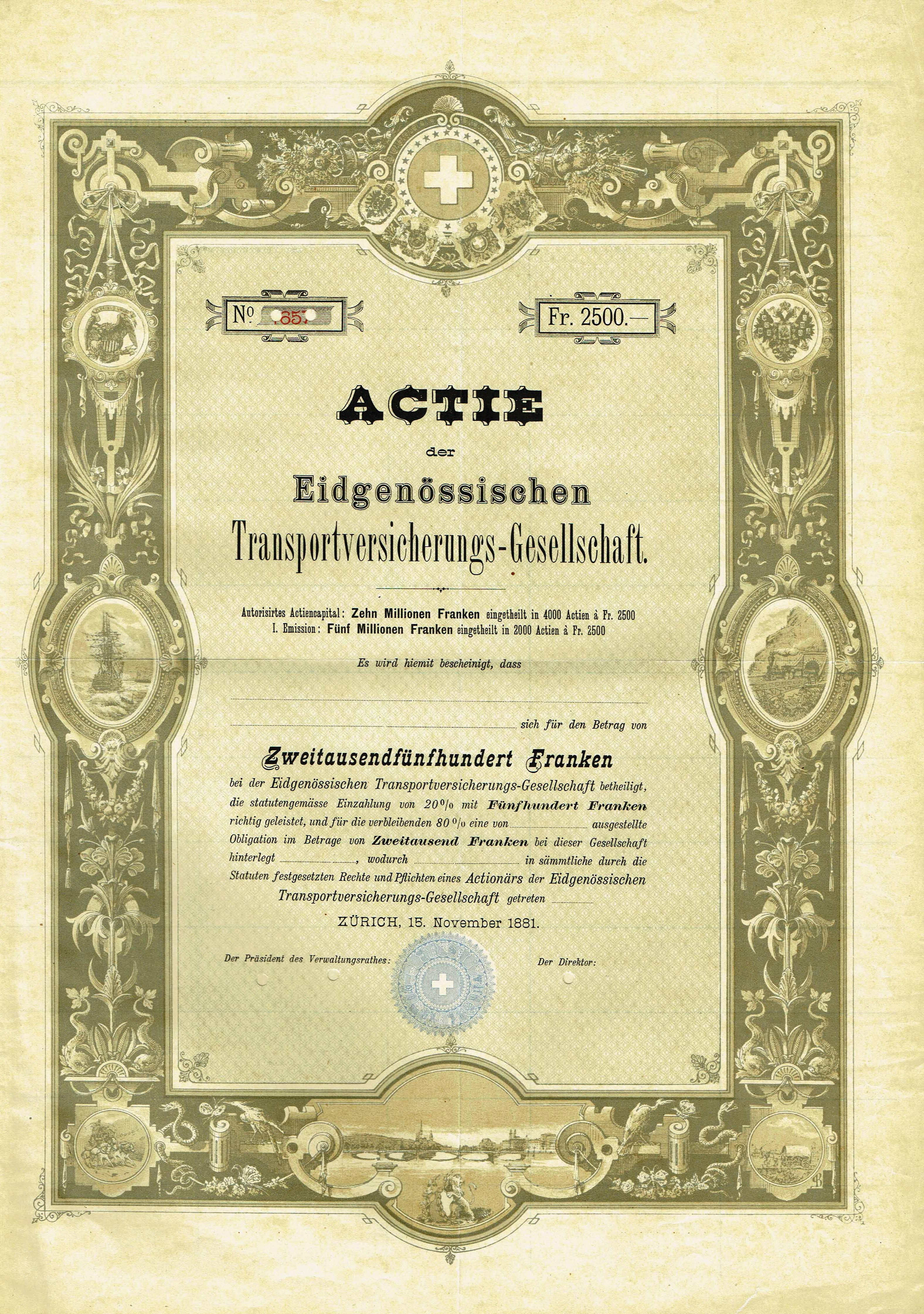 Share of the Eidgenössischen Transportversicherungs-Gesellschaft, issued 15. November 1881